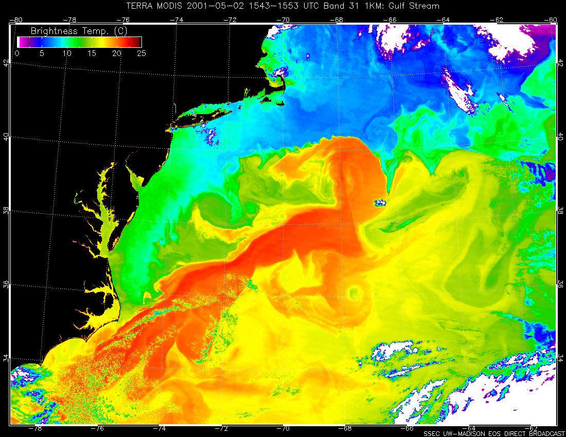 On May 2, 2001, the Moderate-resolution Imaging Spectroradiometer (MODIS) obtained this spectacular image of the Atlantic Ocean's Gulf Stream. The false colors in the image represent "brightness temperature" observed at the top of the atmosphere. The brightness temperature values represent heat radiation from a combination of the sea surface and overlying moist atmosphere.